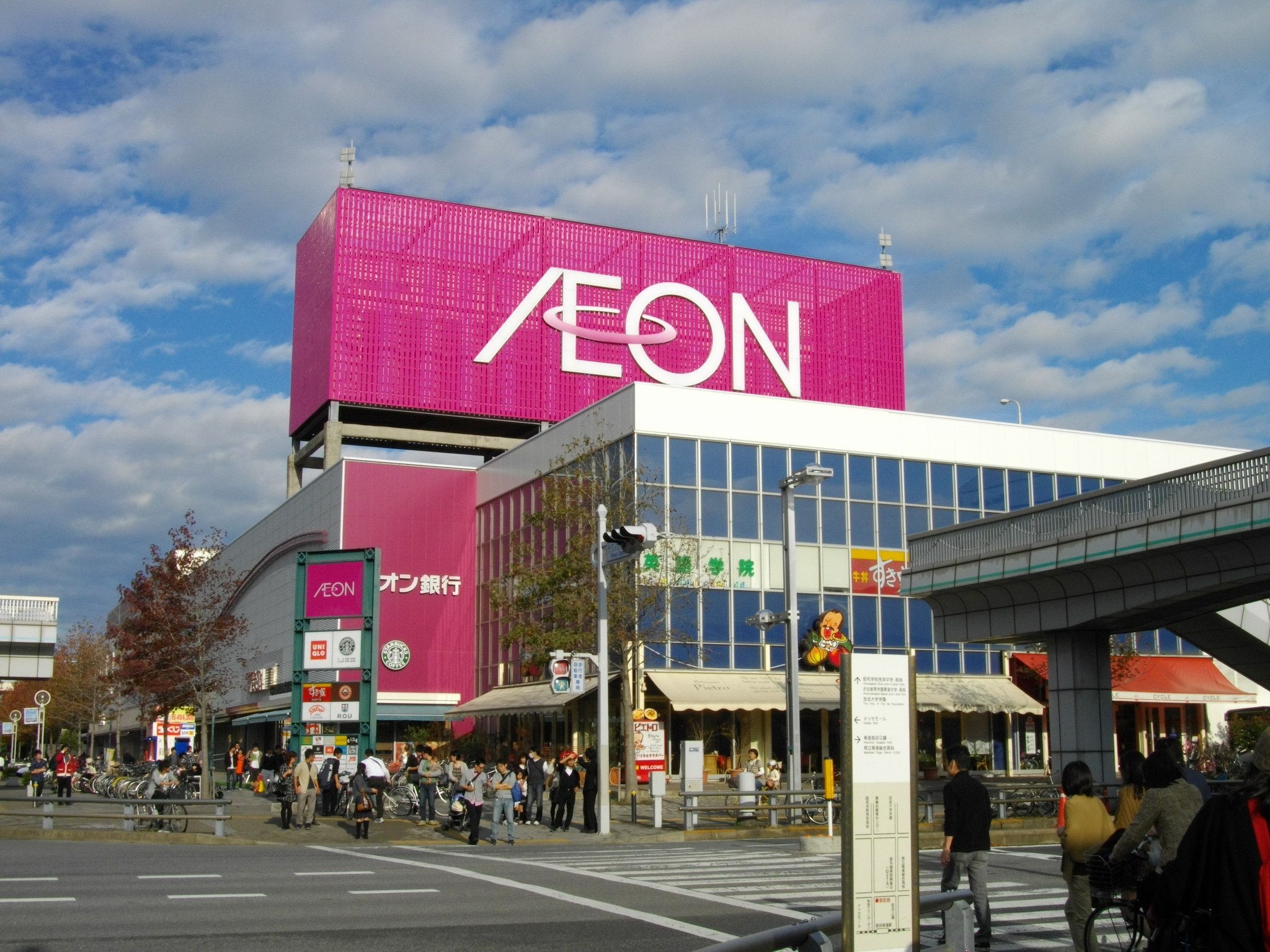 Aeon Makuhari